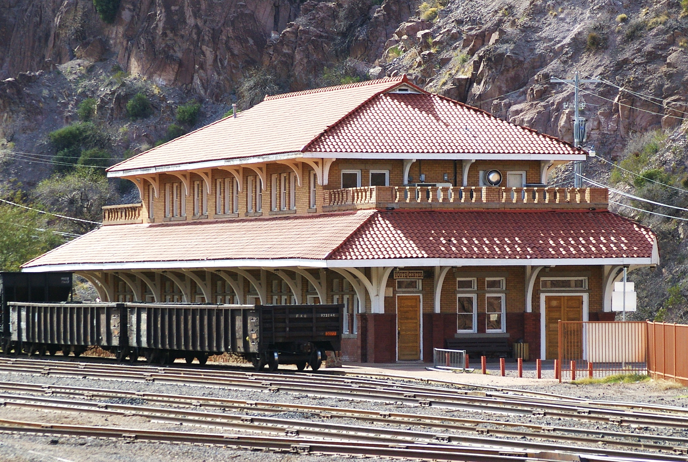 Clifton, AZ train station, builtilt in 1901 by the Arizona & New Mexico RR that was later merged into Southern Pacific. Scheduled passenger train service was discontinued in 1967. It is now used by the Chamber of Commerce and other community organizations. Clifton, AZ is an old copper mining town that has gone through several boom and bust cycles in the last 125 years (currently heading into another "bust" cycle). I am glad the train station survived the trials and tribulations of the last century! A replica of the Clifton station was built in Scottsdale, AZ at Stillman Railroad Park. I like the original myself.